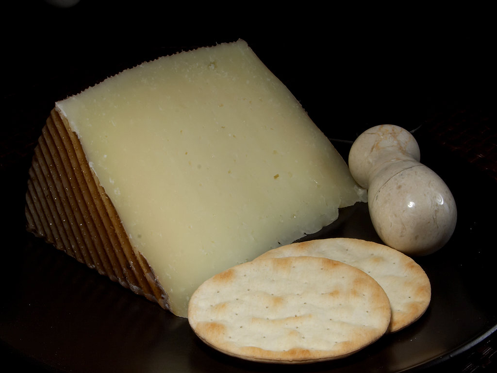 El Trigal Manchego Cheese.